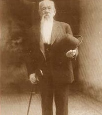 Photo of Hermógenes Ruiz Cano (1839-1922), Governor of San Juan province, Argentina